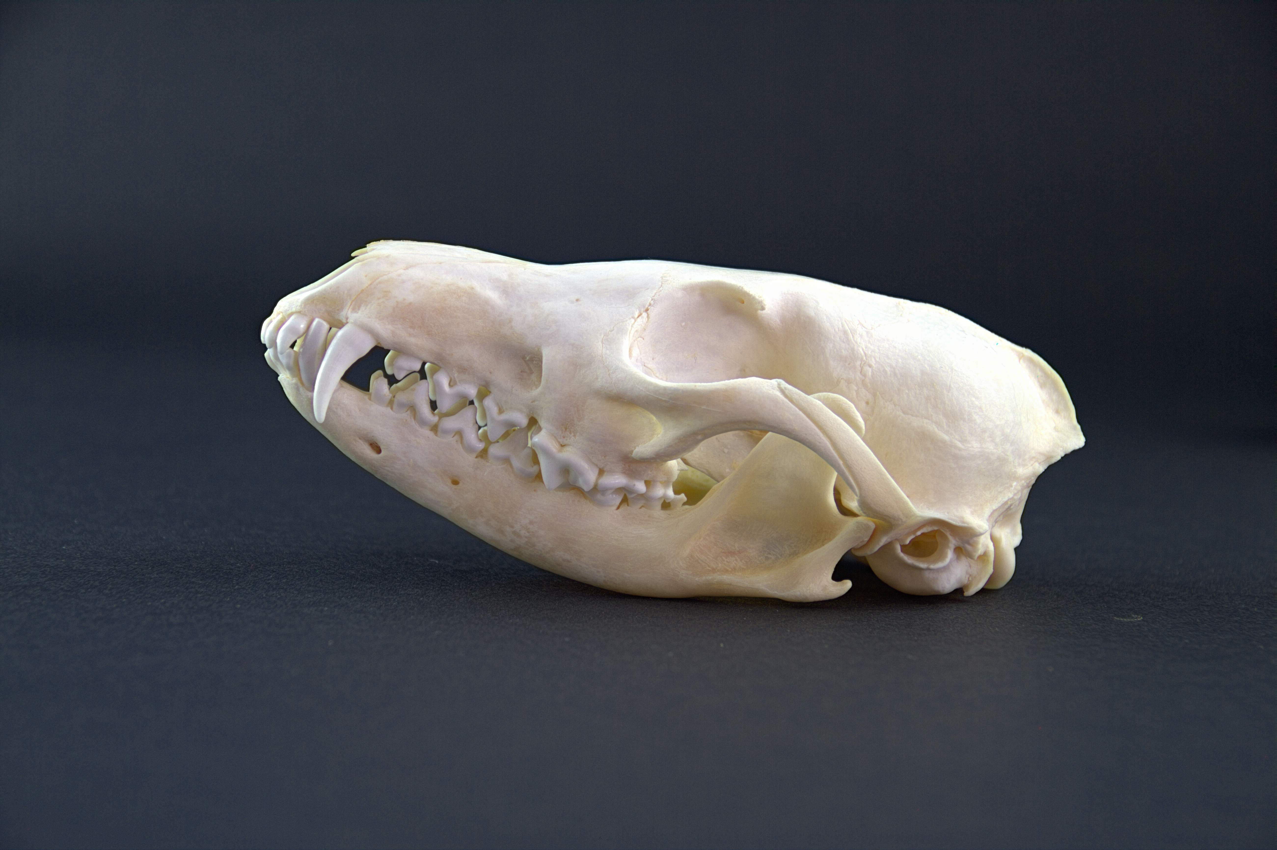 Skull of a vulpes vulpes, lateral view.